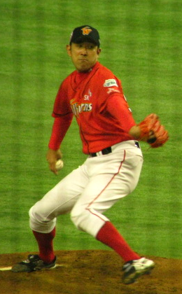 Ken Kadokura, pitcher of the SK Wyverns, at Tokyo Dome.